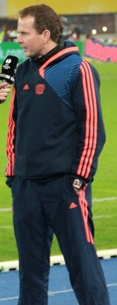 Sascha Lewandowski, coach (Bayer Leverkusen)